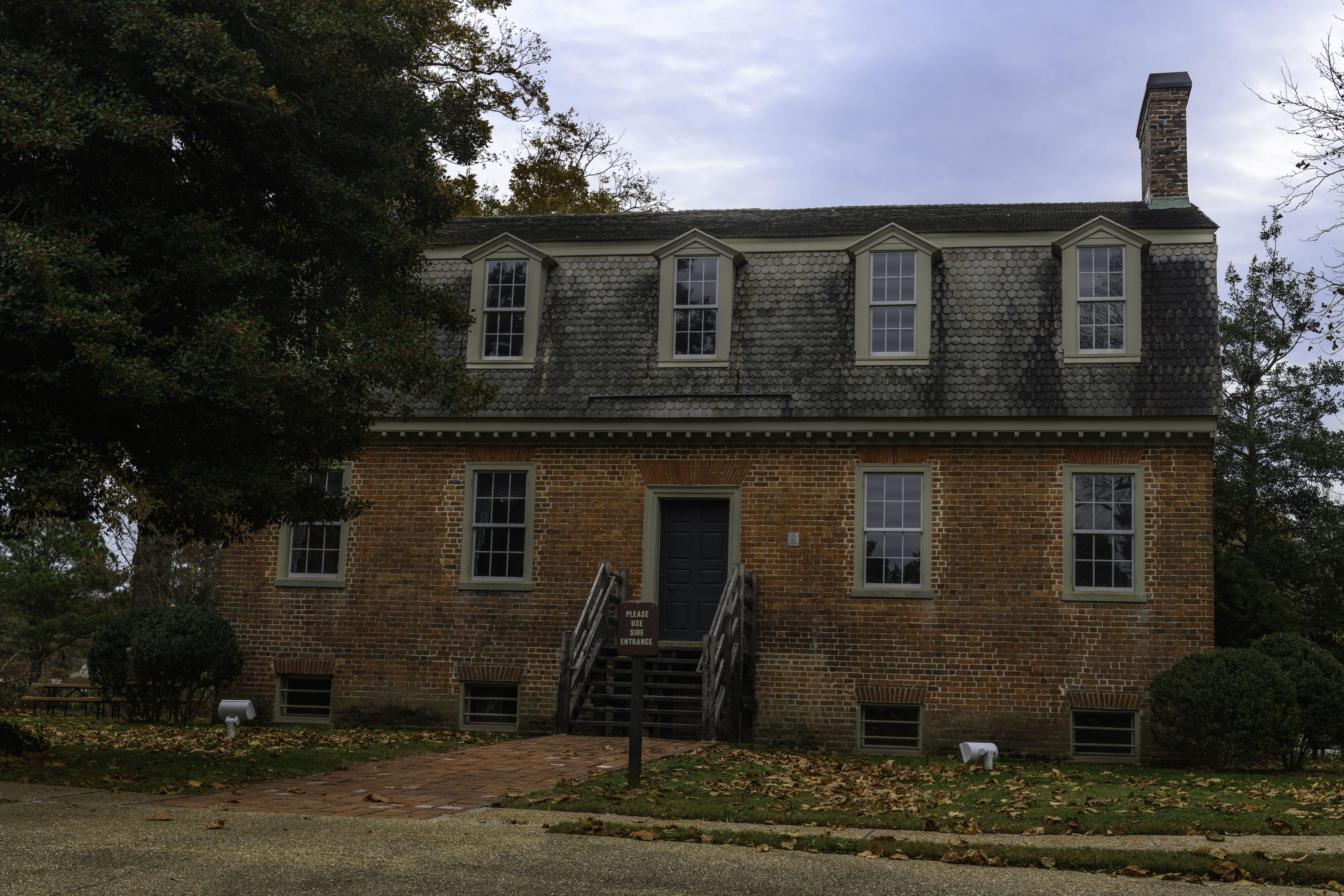 Front of the Francis Land House historical plantation-era museum in Virginia Beach, Virginia.